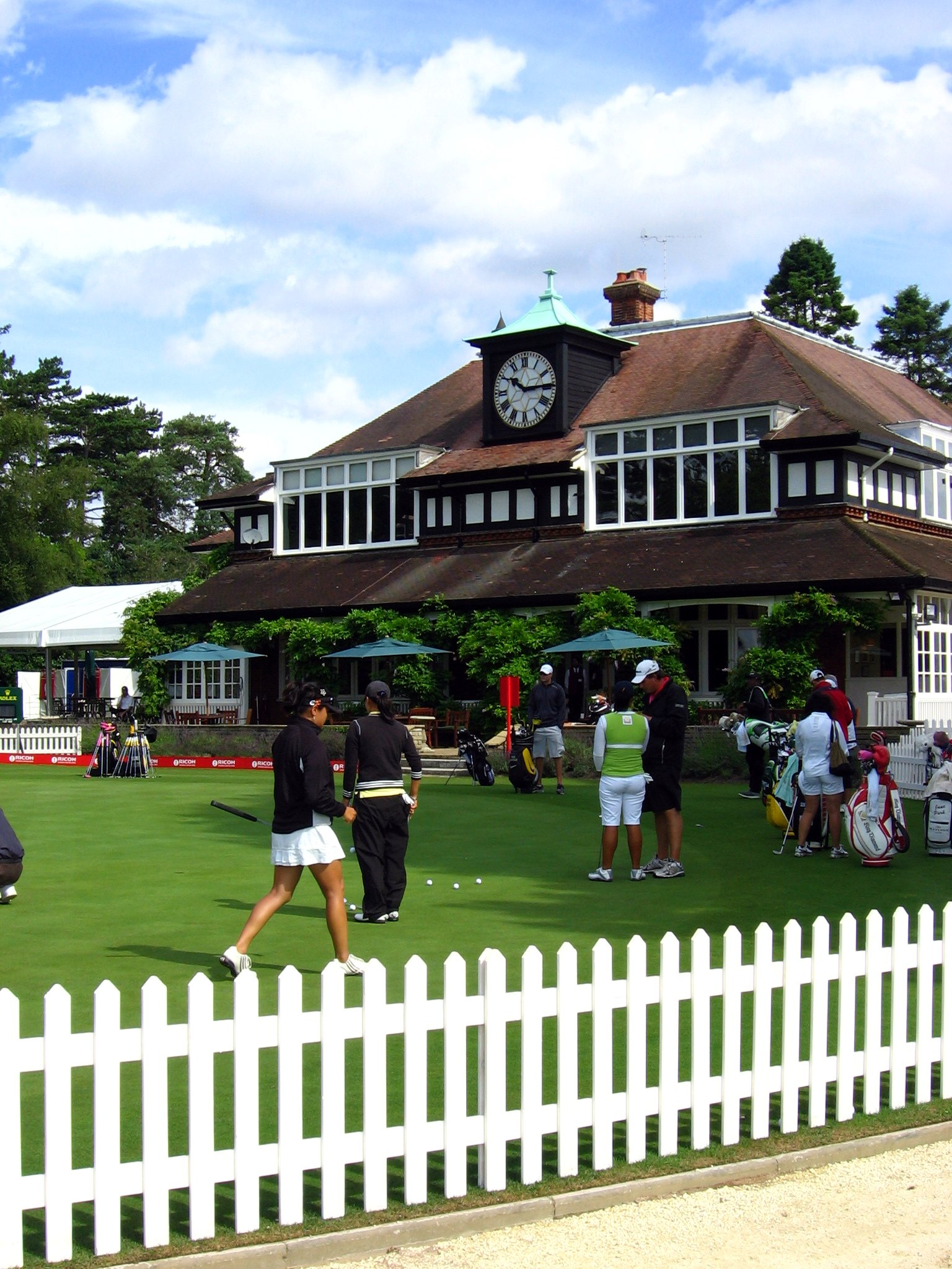 Sunningdale GC clubhouse as photographed during the 2008 Ricoh Women's British Open